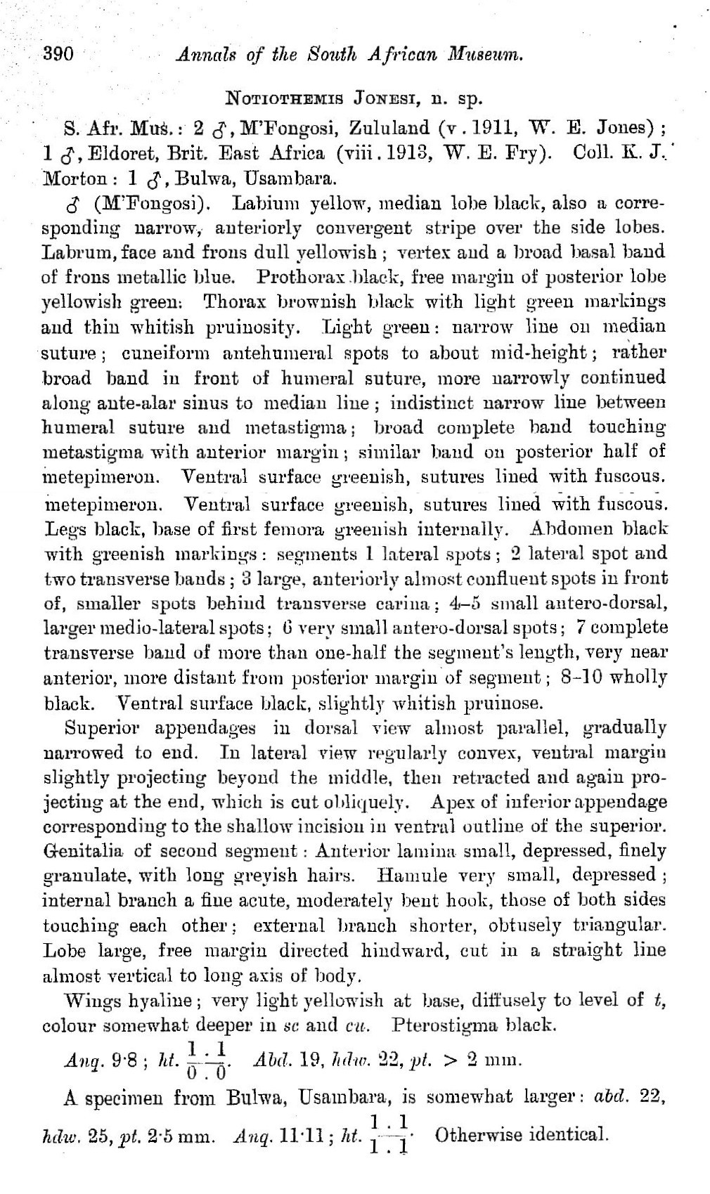 Description of eastern forestwatcher Notiothemis jonesi by Friedrich Ris (1921) in the Annals of the South African Museum.